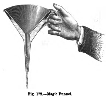 Augustin Privat-Deschanel's "Elementary treatise on natural philosophy" used the Magic Funnel as an example of hydrostatics being uses as a magic trick